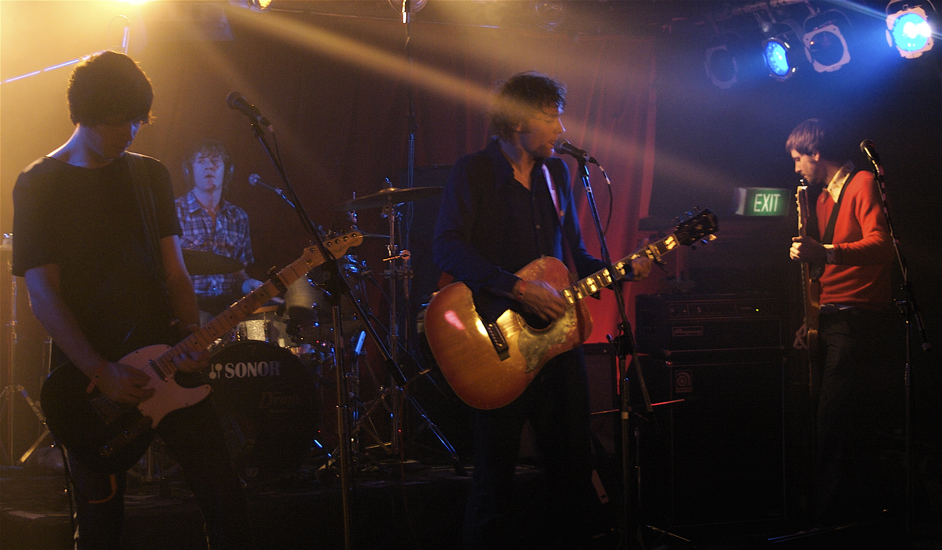 A photo of the band Intercooler.